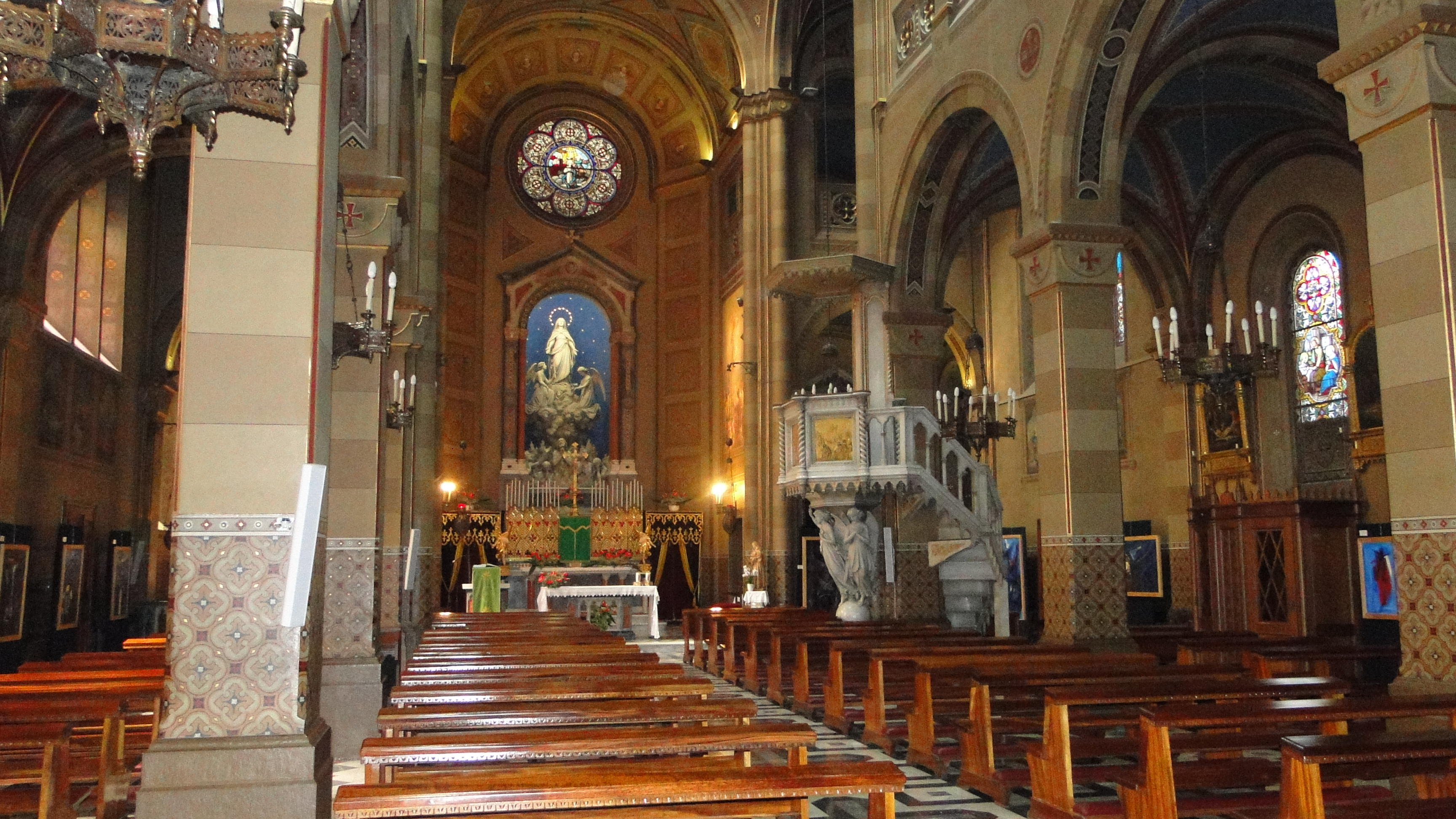 Church of S. Zita in Tutin (Italy) - Interior and main altar